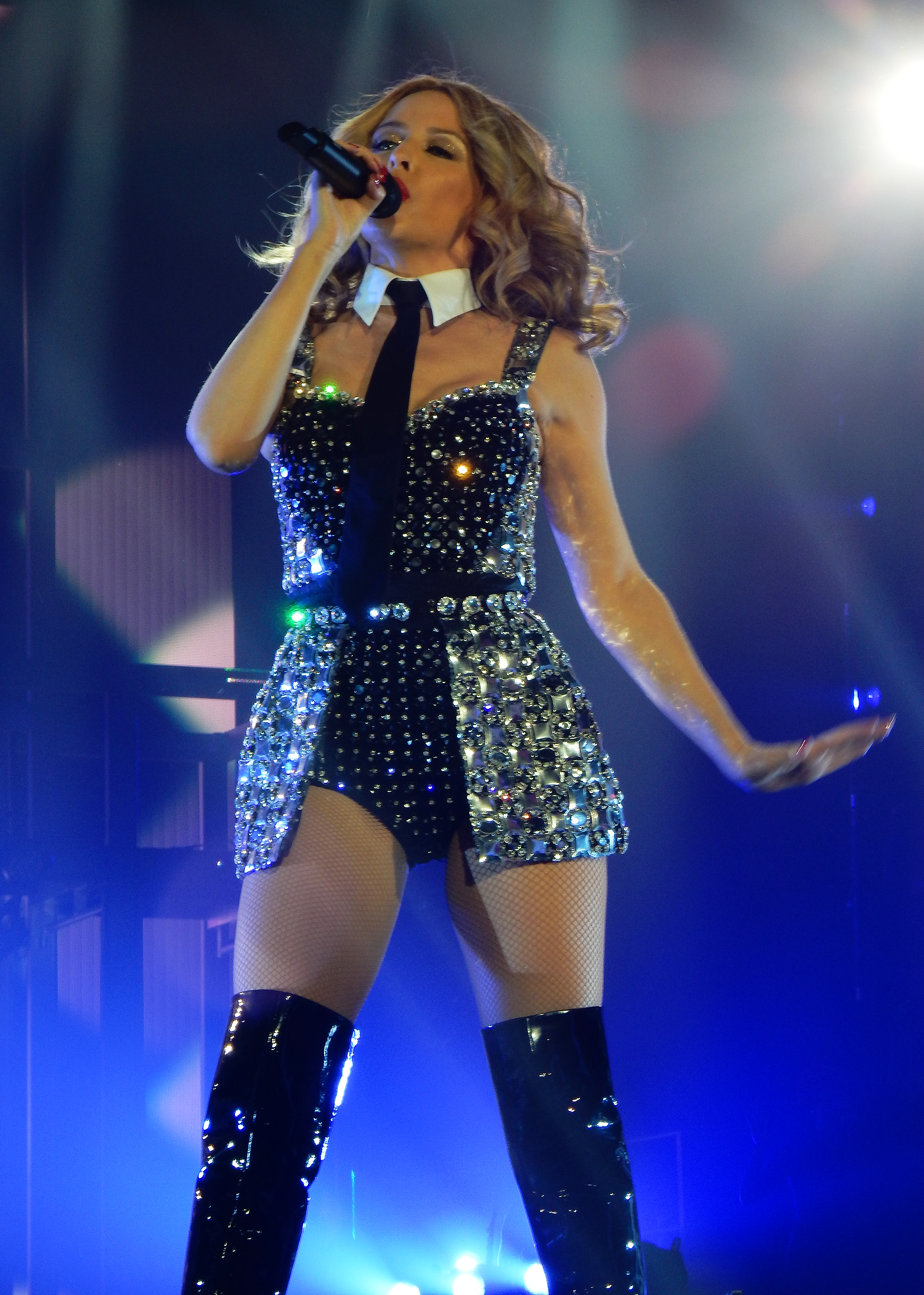 Kylie Minogue - Kiss Me Once Tour - Sheffield - 13.11.14. - 092